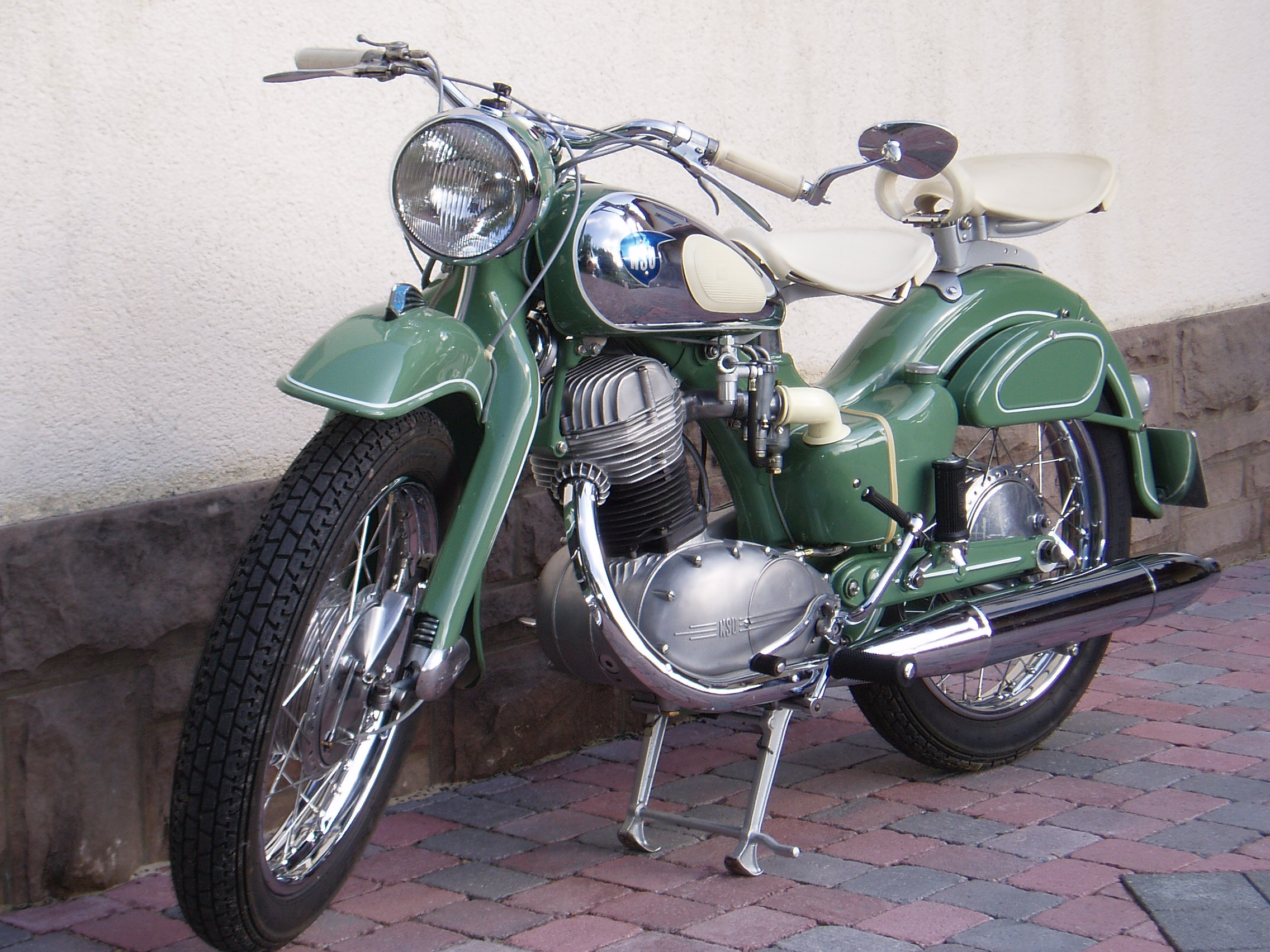 NSU Max 59' 17 hp, restored